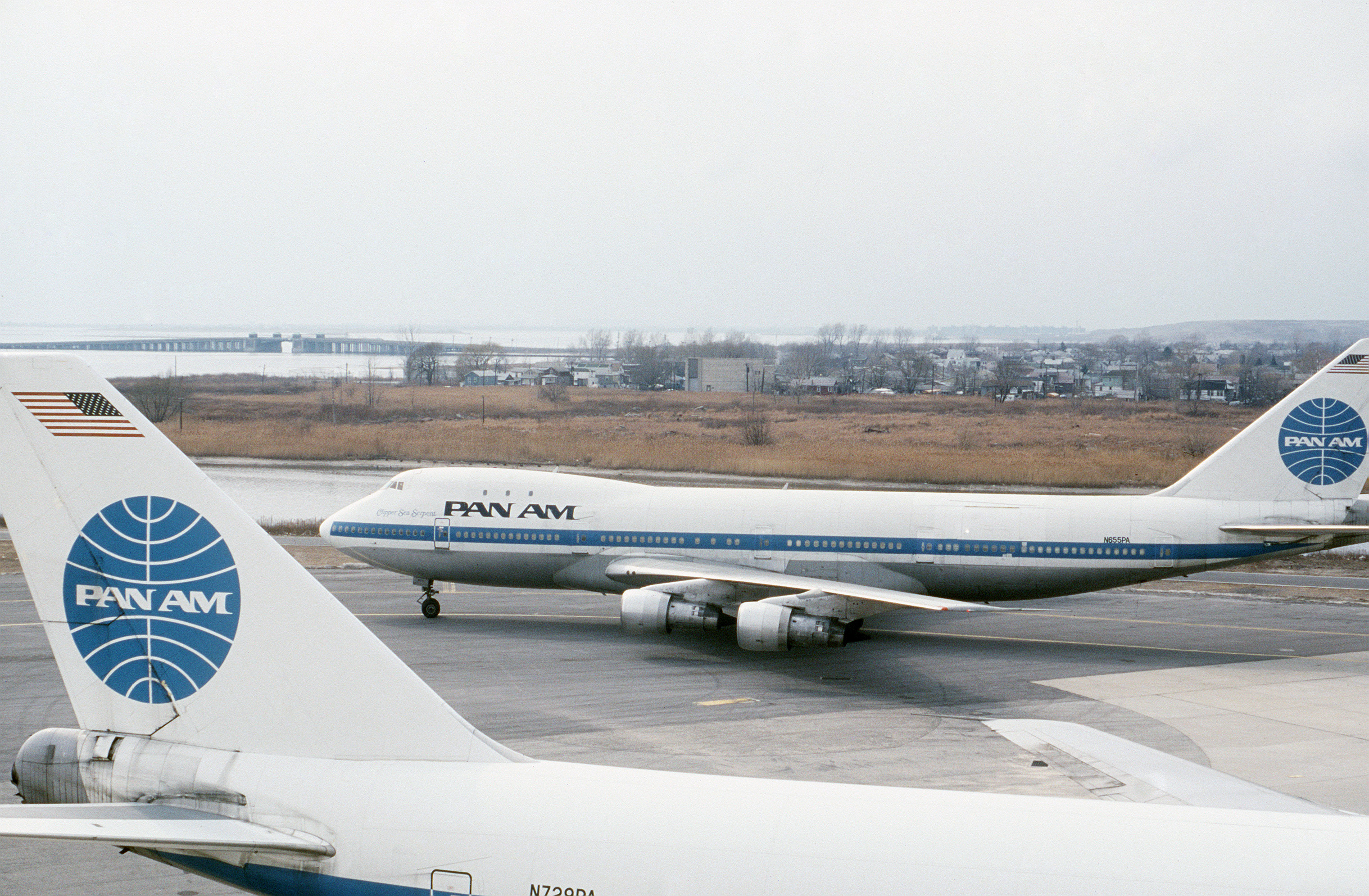 DF-ST-87-13278 The Sea Serpent, a modified Boeing 747 aircraft, taxis out of Pan Am hangar 19 as another Boeing 747 stands in the foreground. The aircraft are undergoing modification as part of a Military Airlift Command plan to use 115 Boeing and McDonnell Douglas jetliners as air ambulances in the event of war. The aircraft, which would be part of the Civil Reserve Air Fleet, would airlift patients back to the United States.